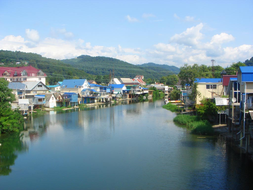 Sochi - Dagomys river flows into the Black Sea